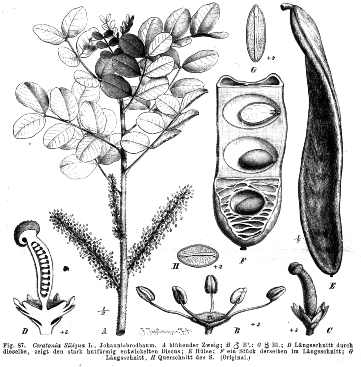 Illustration from book